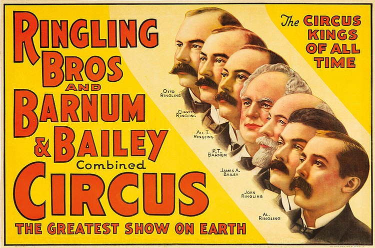 Ringling Bros and Barnum and Bailey Combined Circus, Circus Kings of all Time